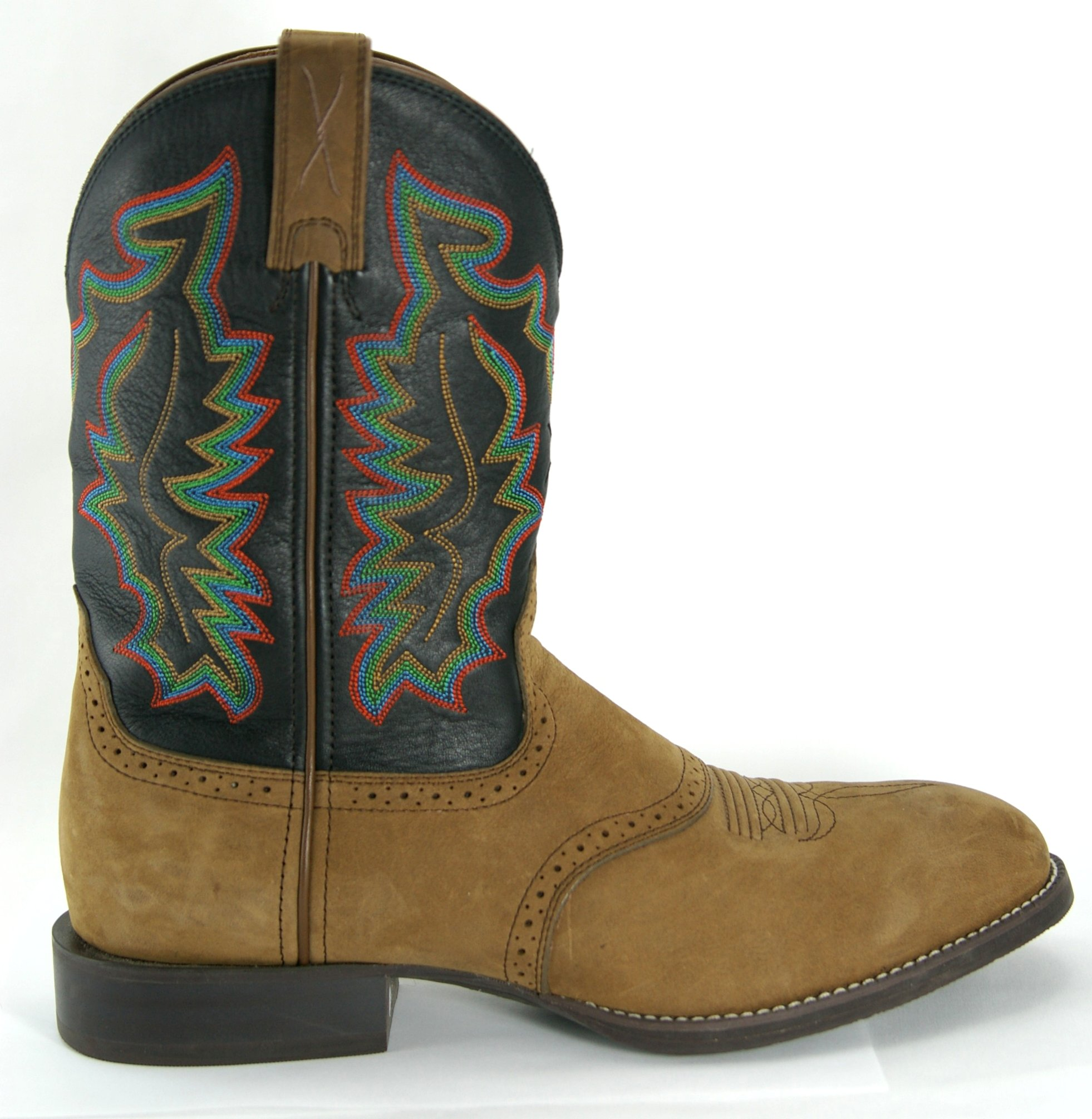 A roper boot style cowboy boot. Note the square, short heel.